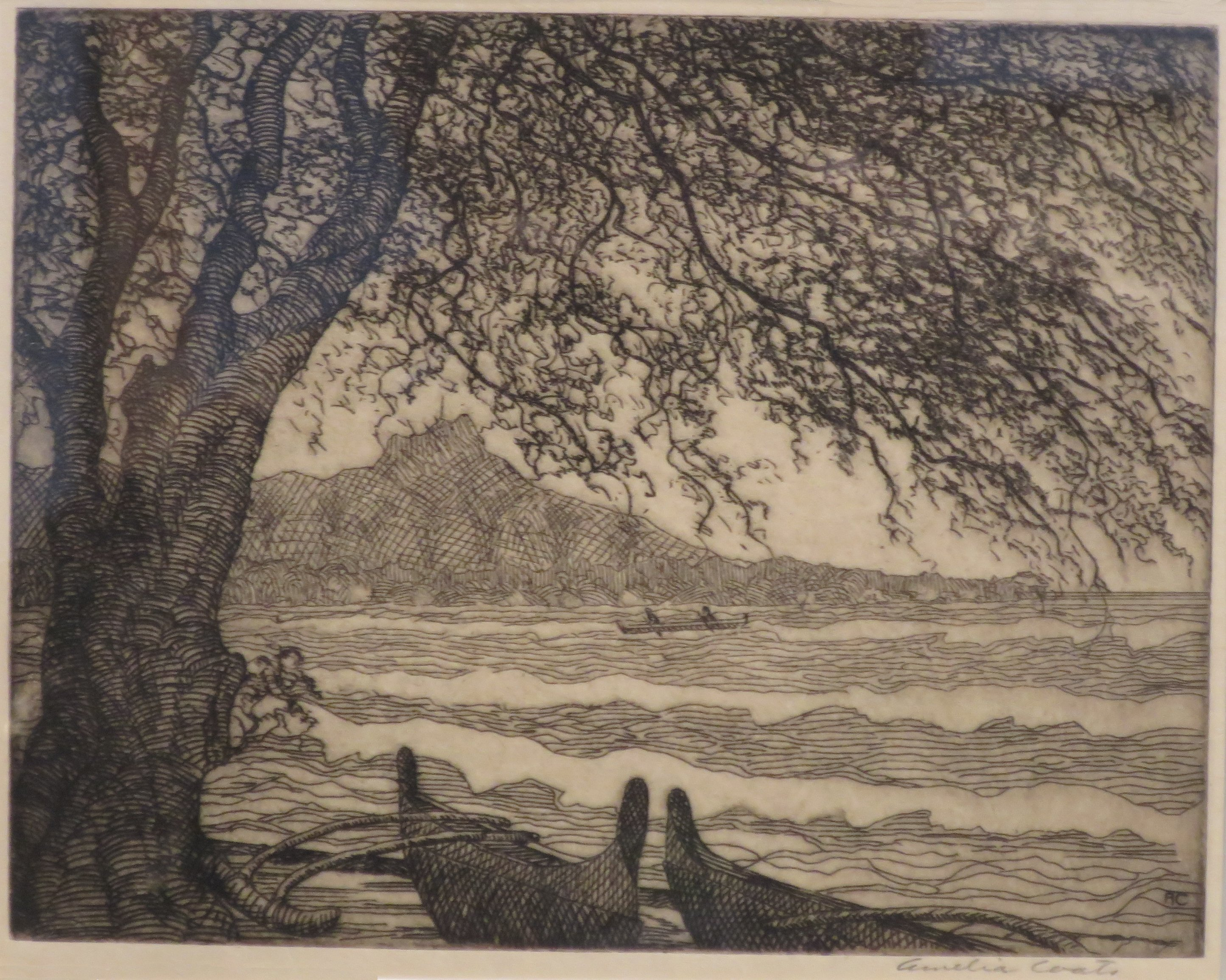 Kiawe and Canoes by Amelia R. Coats (1877-1967), c. 1920s-early 1930s, etching, Honolulu Museum of Art, accession 6044